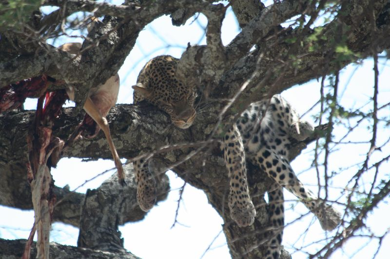 leopard with kill